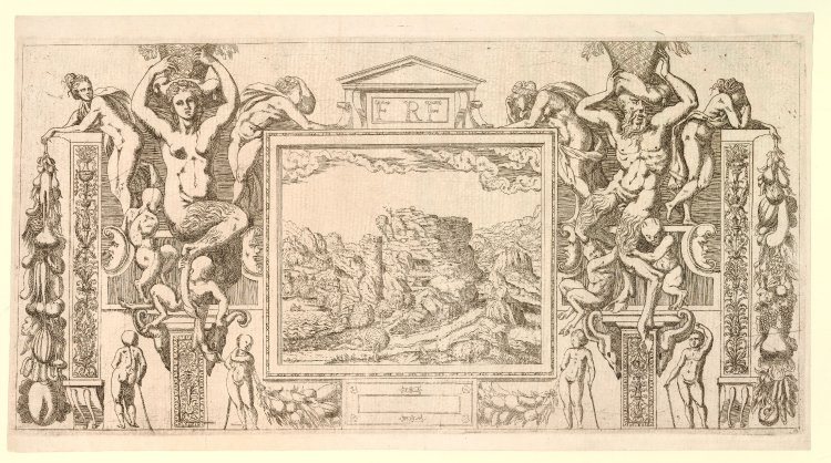 Print by Antonio Fantuzzi, British Museum Cartouche with male and female satyrs carrying baskets and flanking a rocky landscape. 1543 Etching by: Antonio Fantuzzi After: Rosso Fiorentino biography